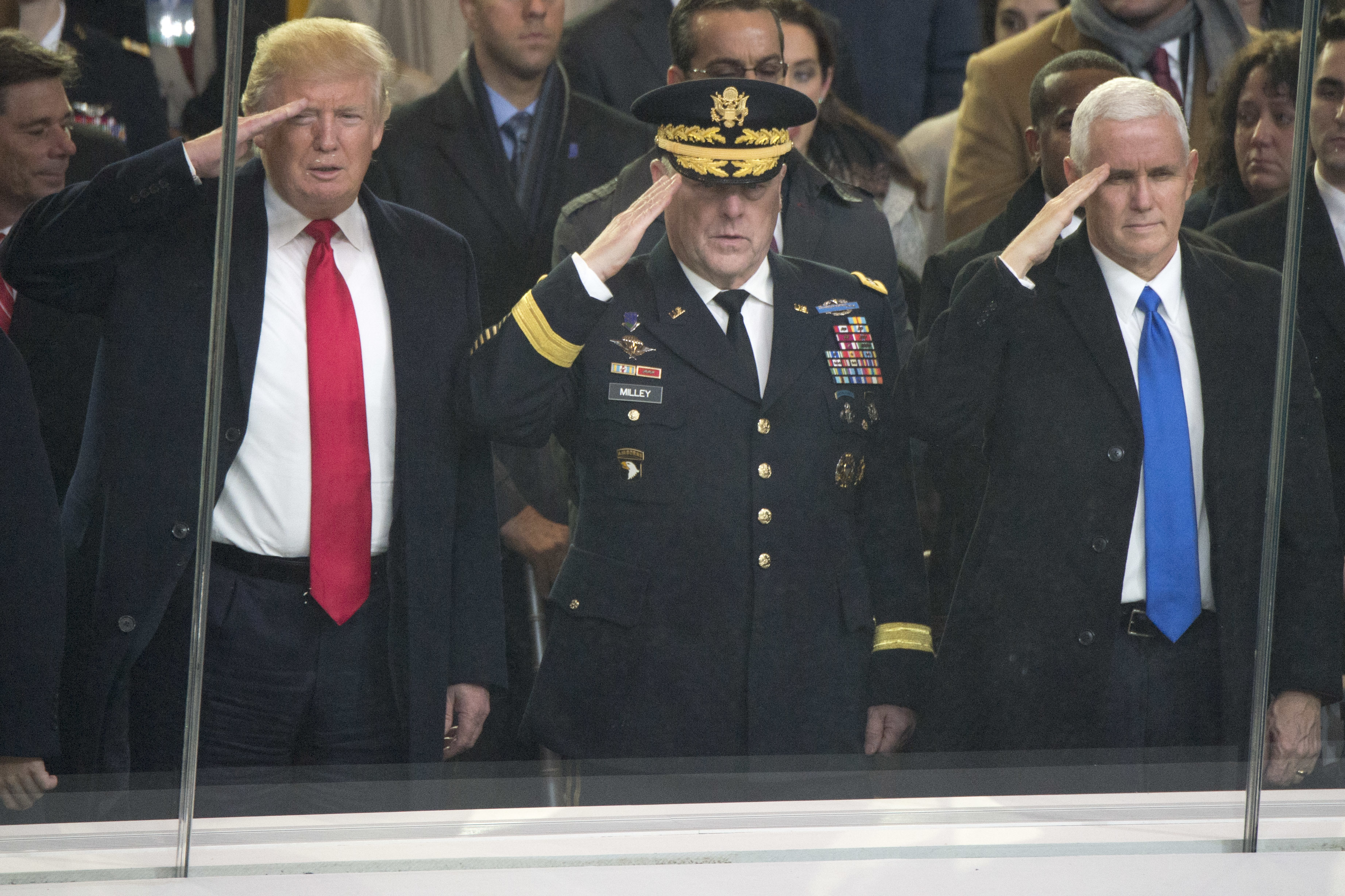 President Donald J. Trump and Vice President Michael Pence observe the 58th Presidential Inauguration Parade at the White House reviewing stand in Washington D.C., Jan. 20, 2017. More than 5,000 military members from across all branches of the armed forces of the United States, including Reserve and National Guard components, provided ceremonial support and Defense Support of Civil Authorities during the inaugural period. (DoD Photo by Navy Petty Officer 2nd Class Dominique A. Pineiro/Released)